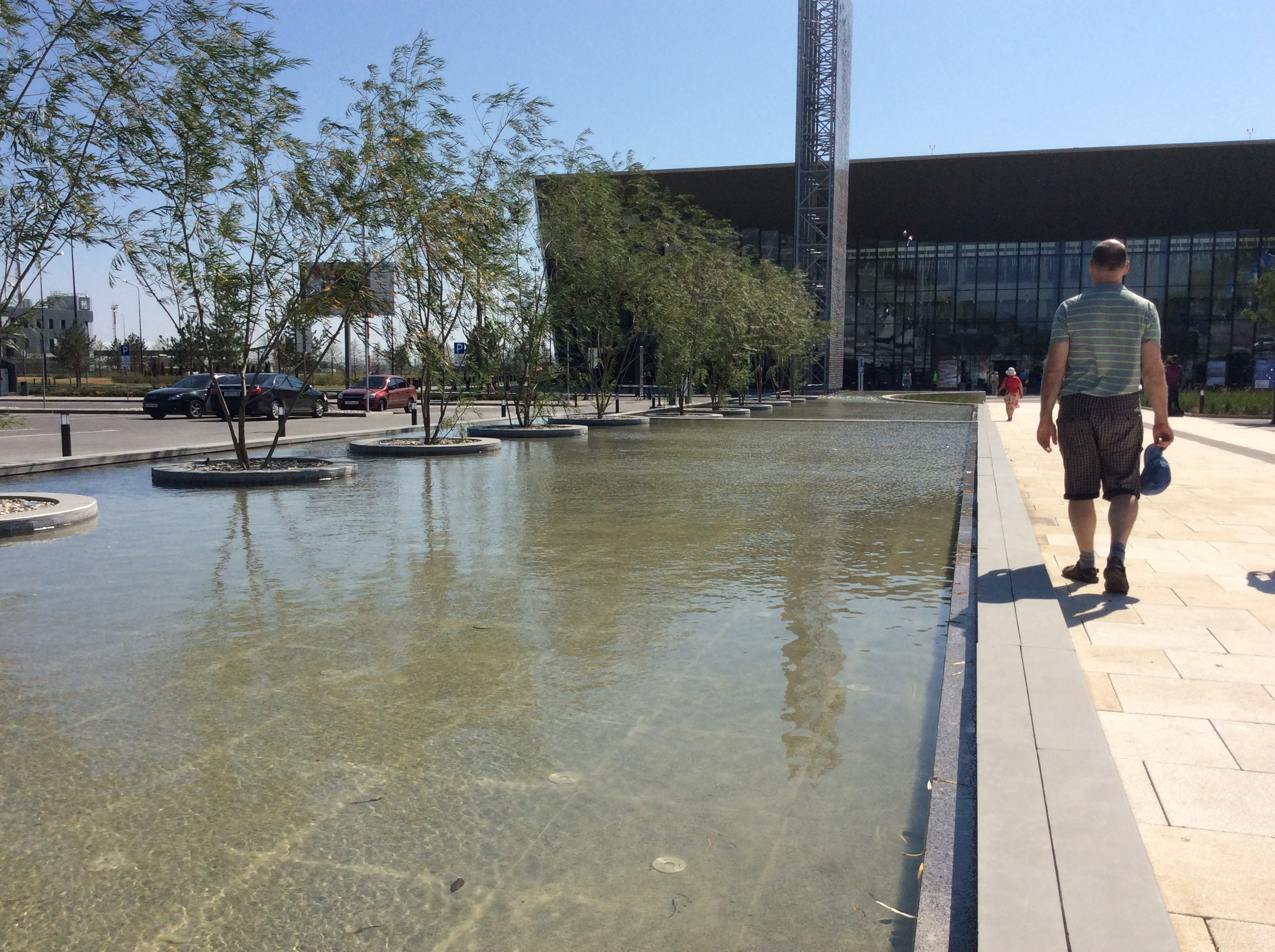 Saratov Gagarin Airport 2 days after opening.